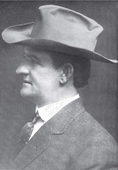 Thomas Edward Campbell, second Governor of Arizona